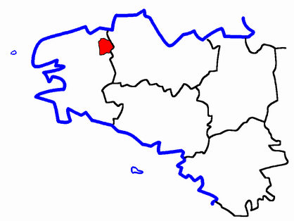 Description: Map for localisazion of cantons of Bretagne region in France Source: made by Hervé Tigier in april 2005 from another large map (published in 1990)